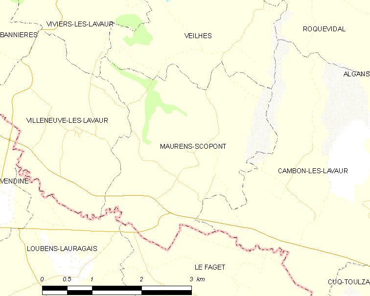 Map of French municipality Maurens-Scopont